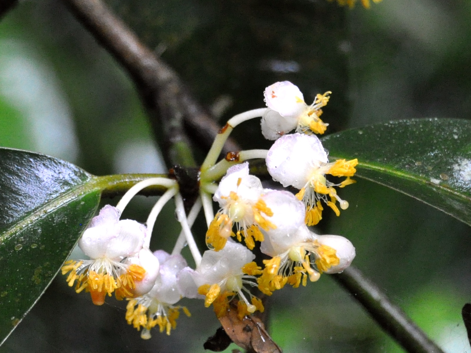 Calophyllum soulattri flowers. From Bogor, West Java, Indonesia.